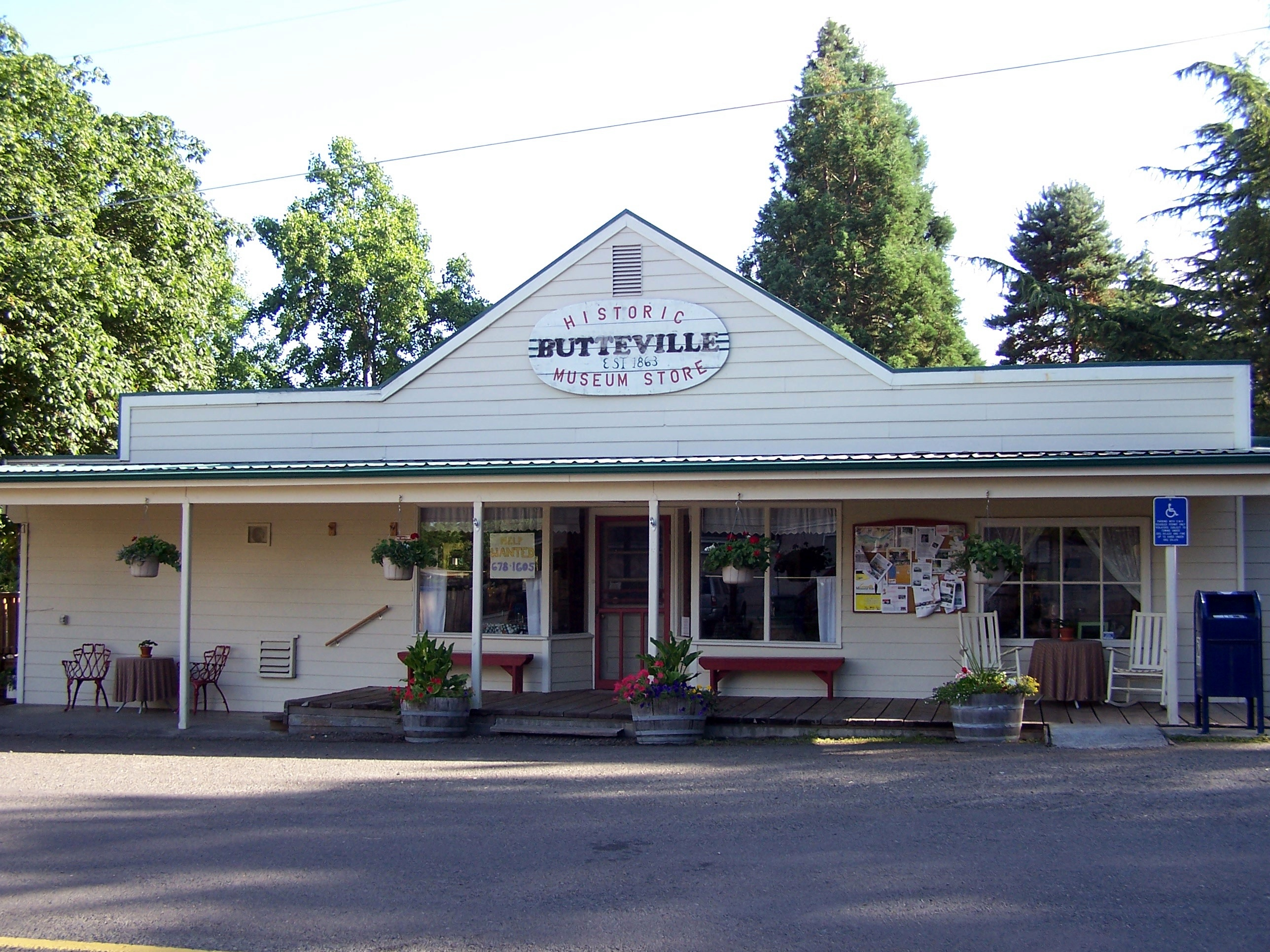 The historic Butteville Store and Museum in Butteville, Oregon. The store was established in 1863.